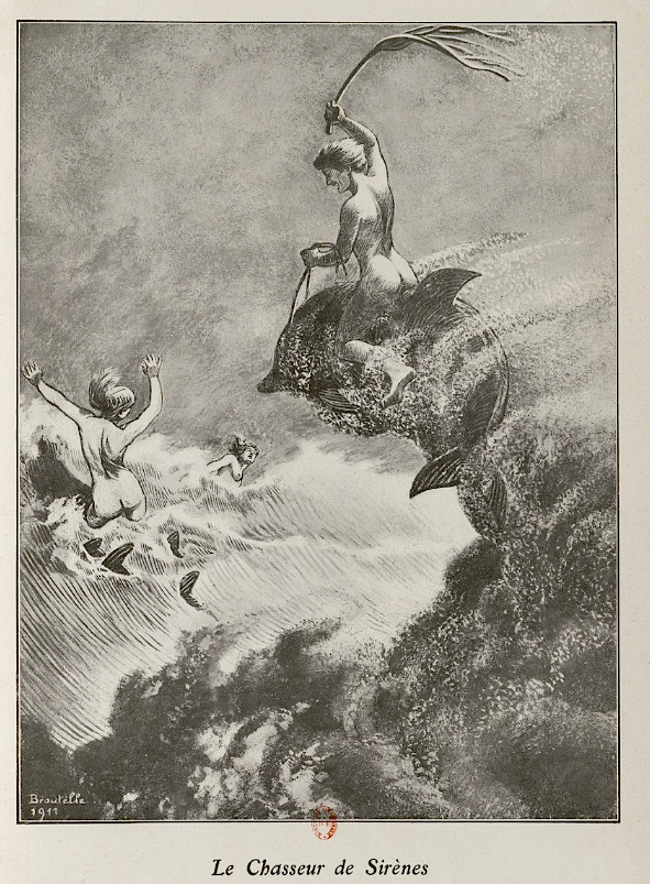 Le Chasseur de Sirènes [The Mermaids Hunter], illustration signed and dated, for Henri de Régnier's Poems, série of 10 engavings & lithographs printed in Paris by Frazier-Soye in 1918.